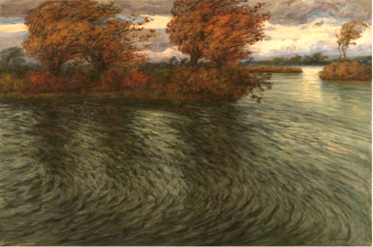 Tempest